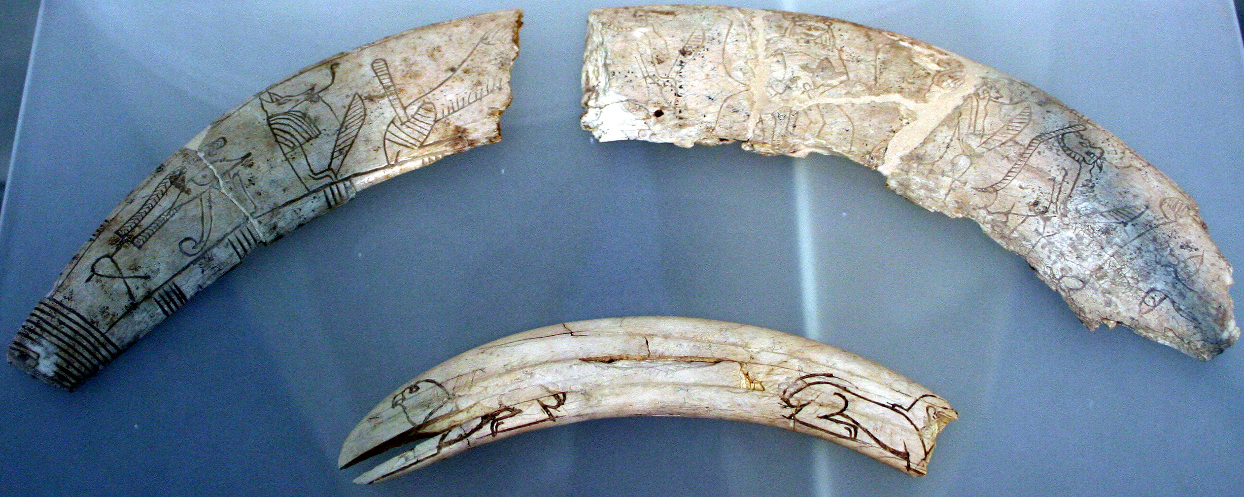 Magic wands, ivory, Middle Kingdom, provenance unknown